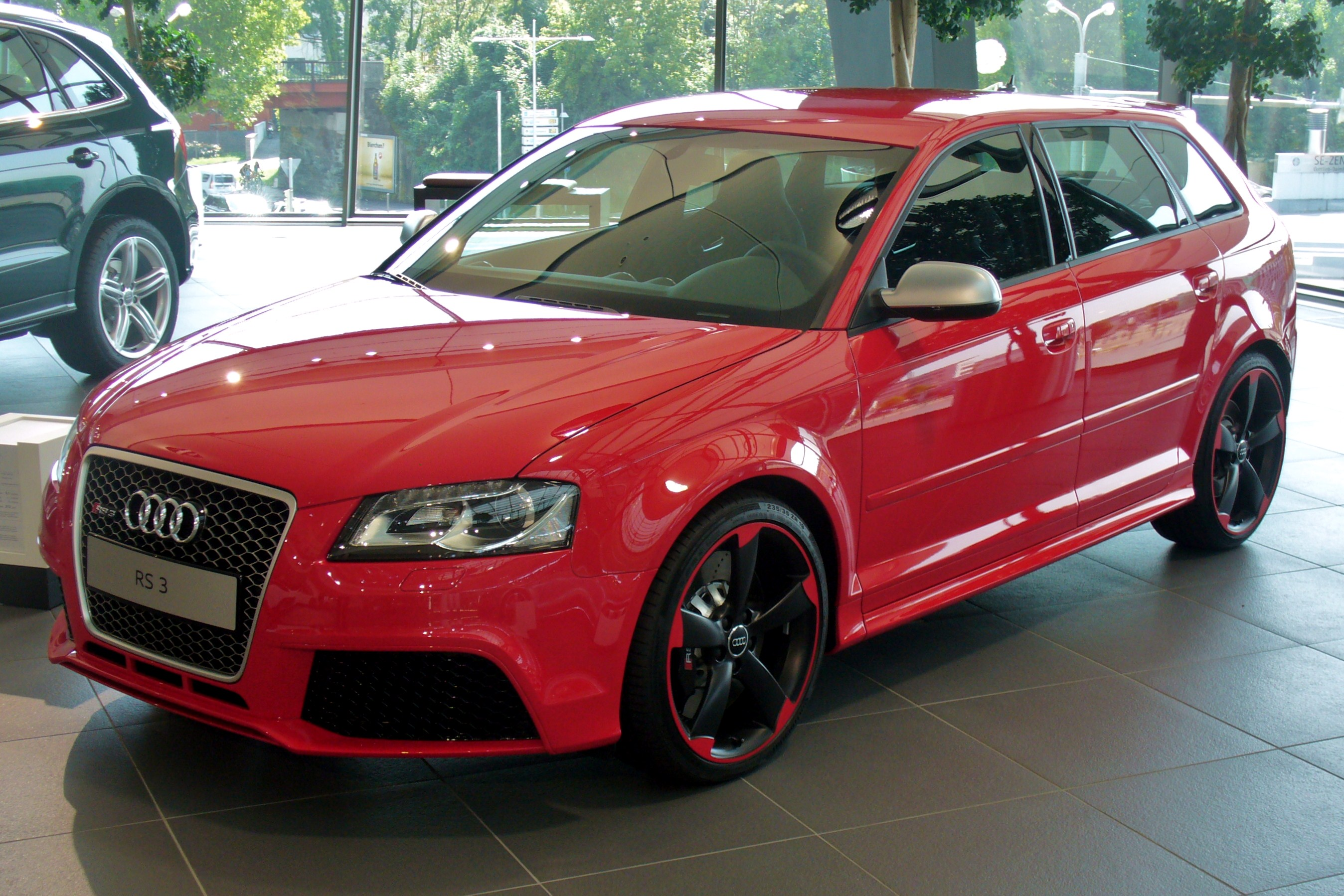 Audi RS3 Sportback